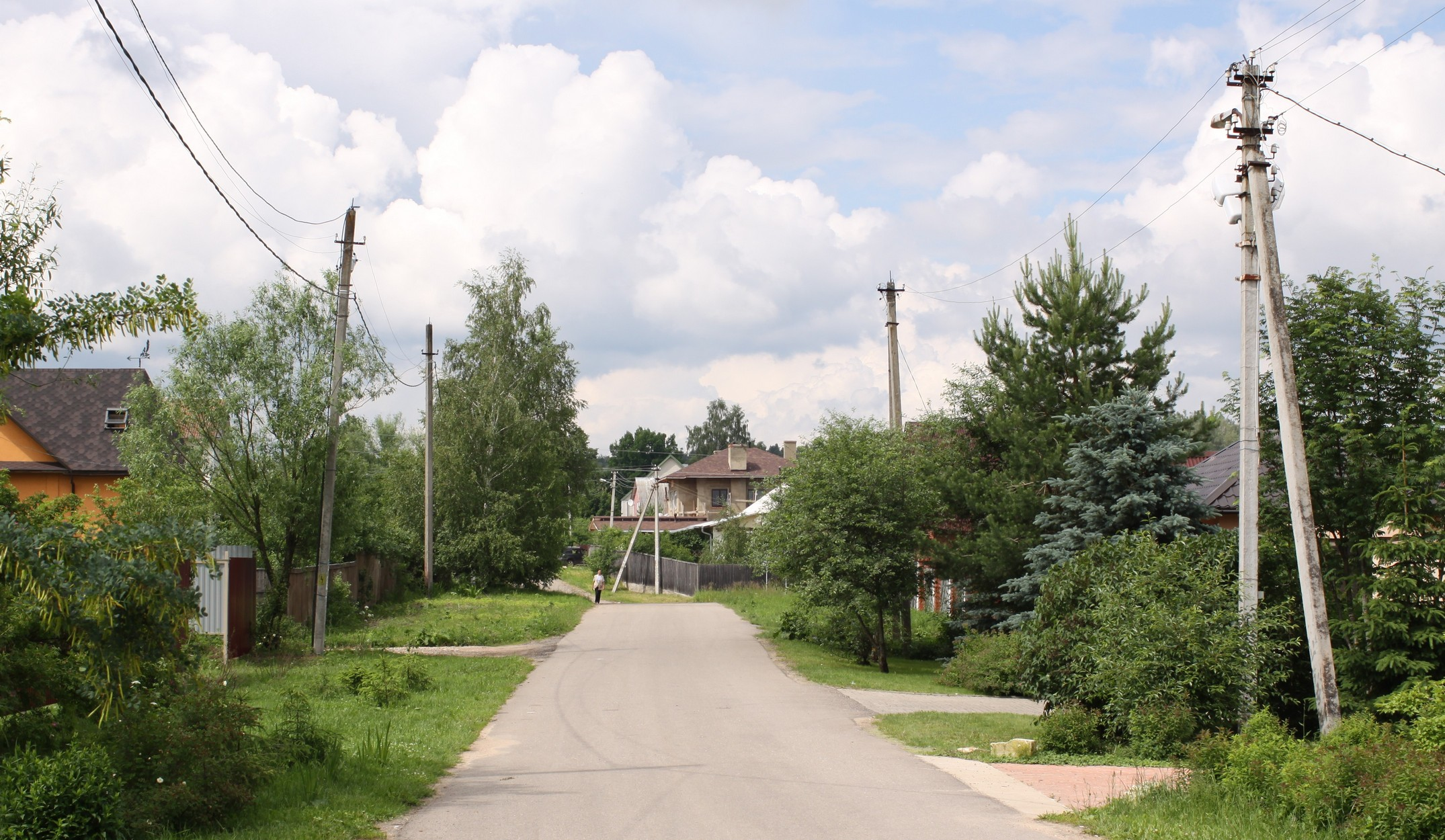 Street in Mihajlovskoe, starting from church.